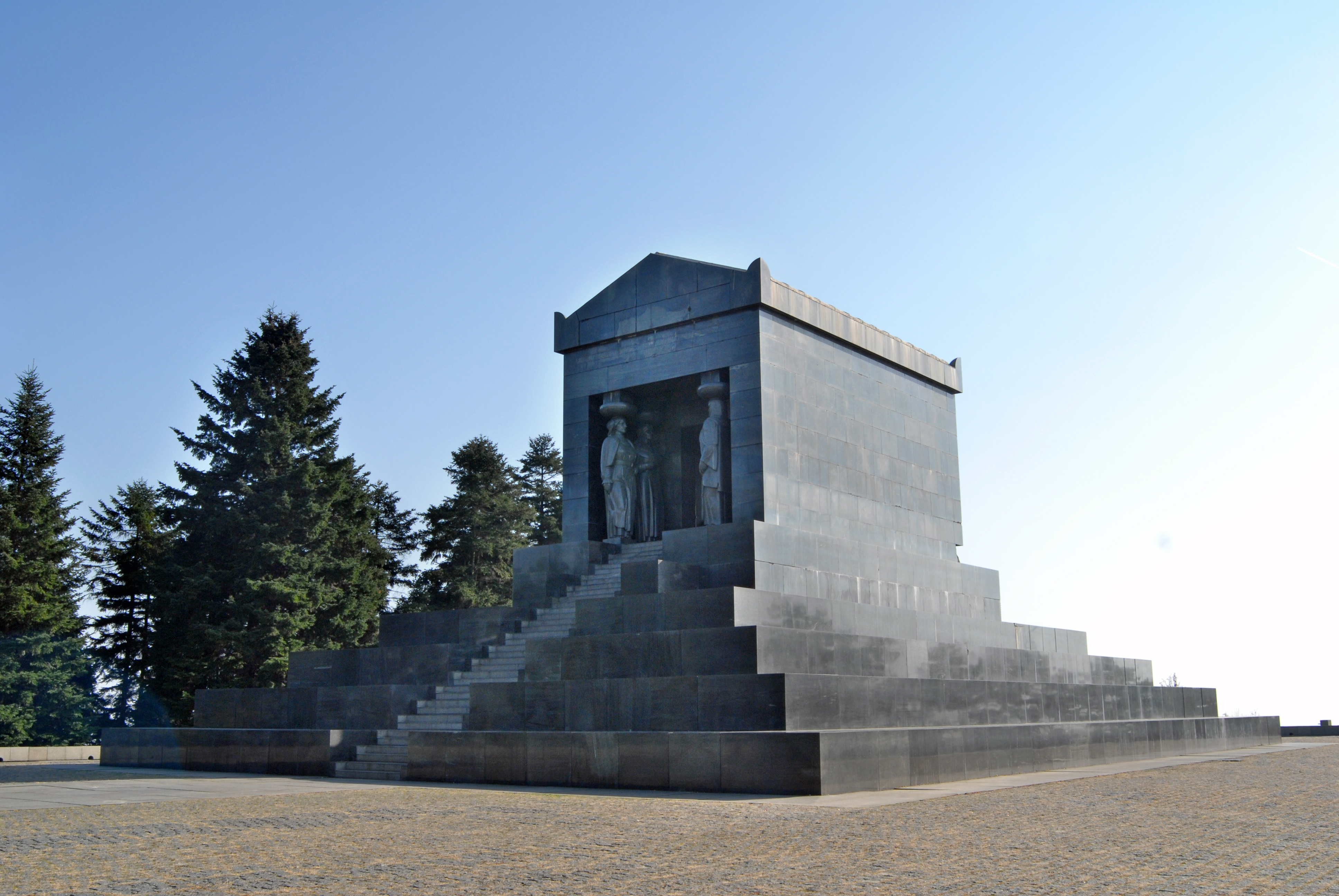 Споменик Незнаном јунаку